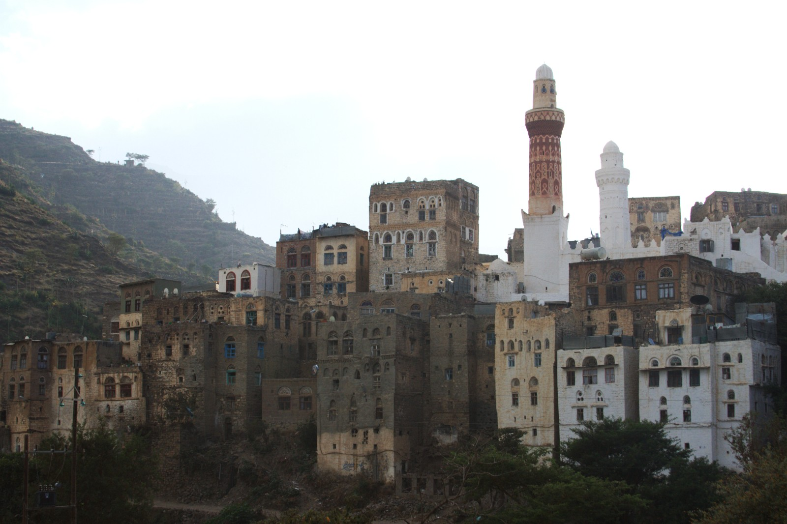 Jibla ,Yemen village landscape